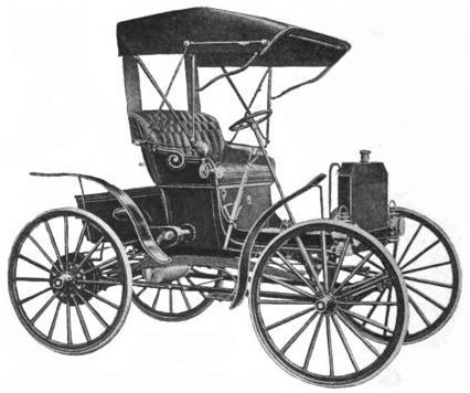 Image of the Schacht automobile comes from an advertisement in the Cycle and Automobile Trade Journal Vol XIII, No 7.